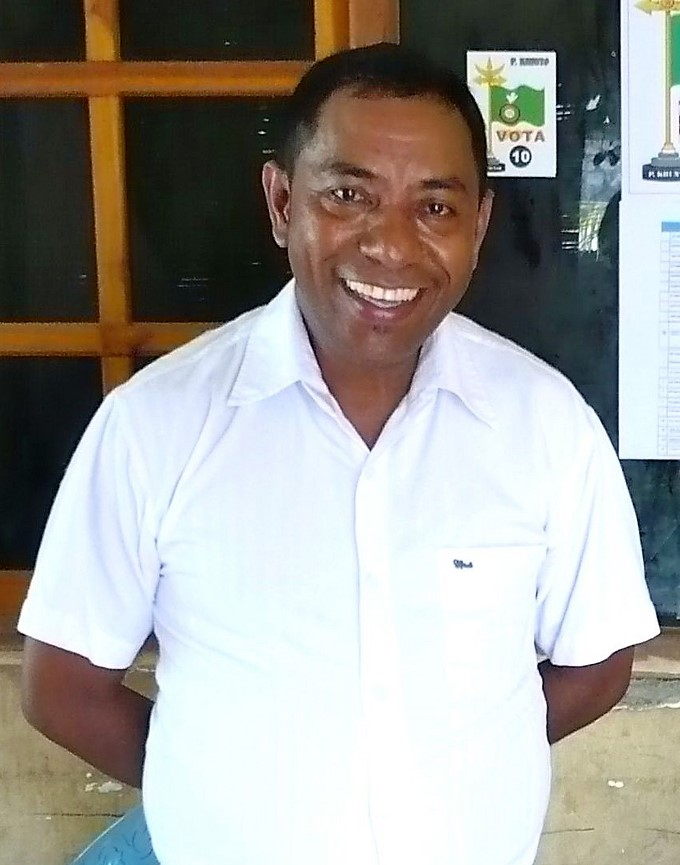 Secretary General José Agustinho da Silva of the political party Khunto at their party office in Dili, Timor-Leste